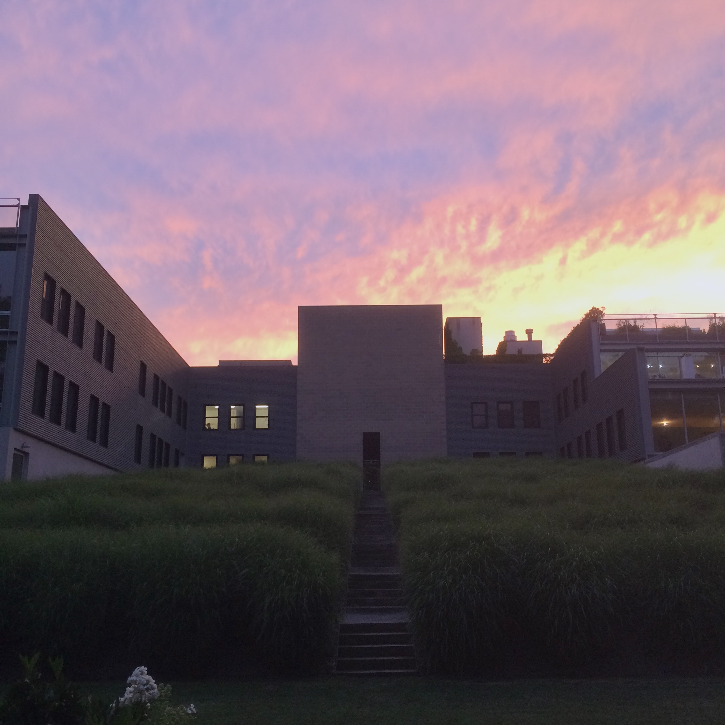 The Watermill Center (Long Island, NY) at sunset